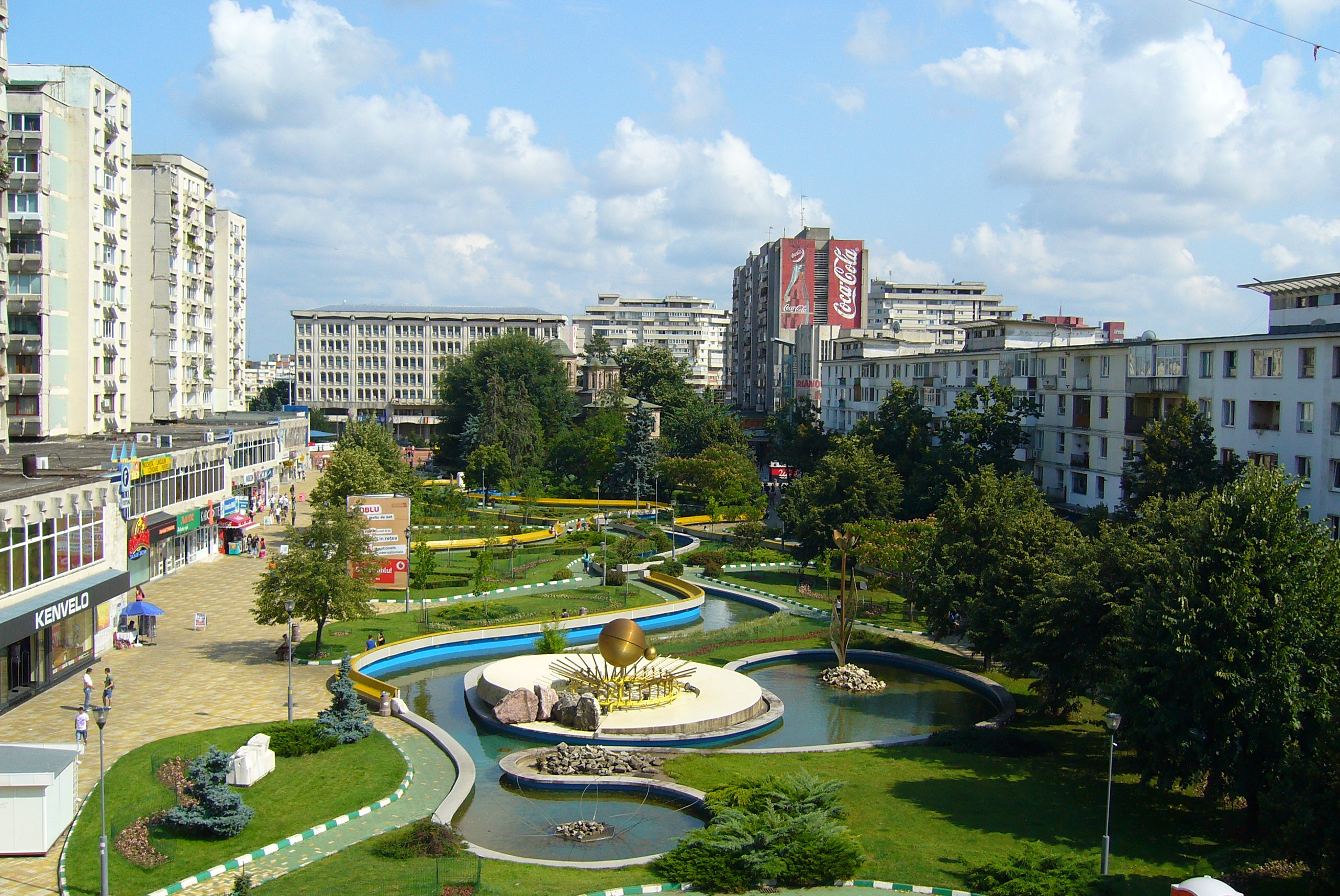 Downtown Pitesti - View of the park towards St. George's cathedral